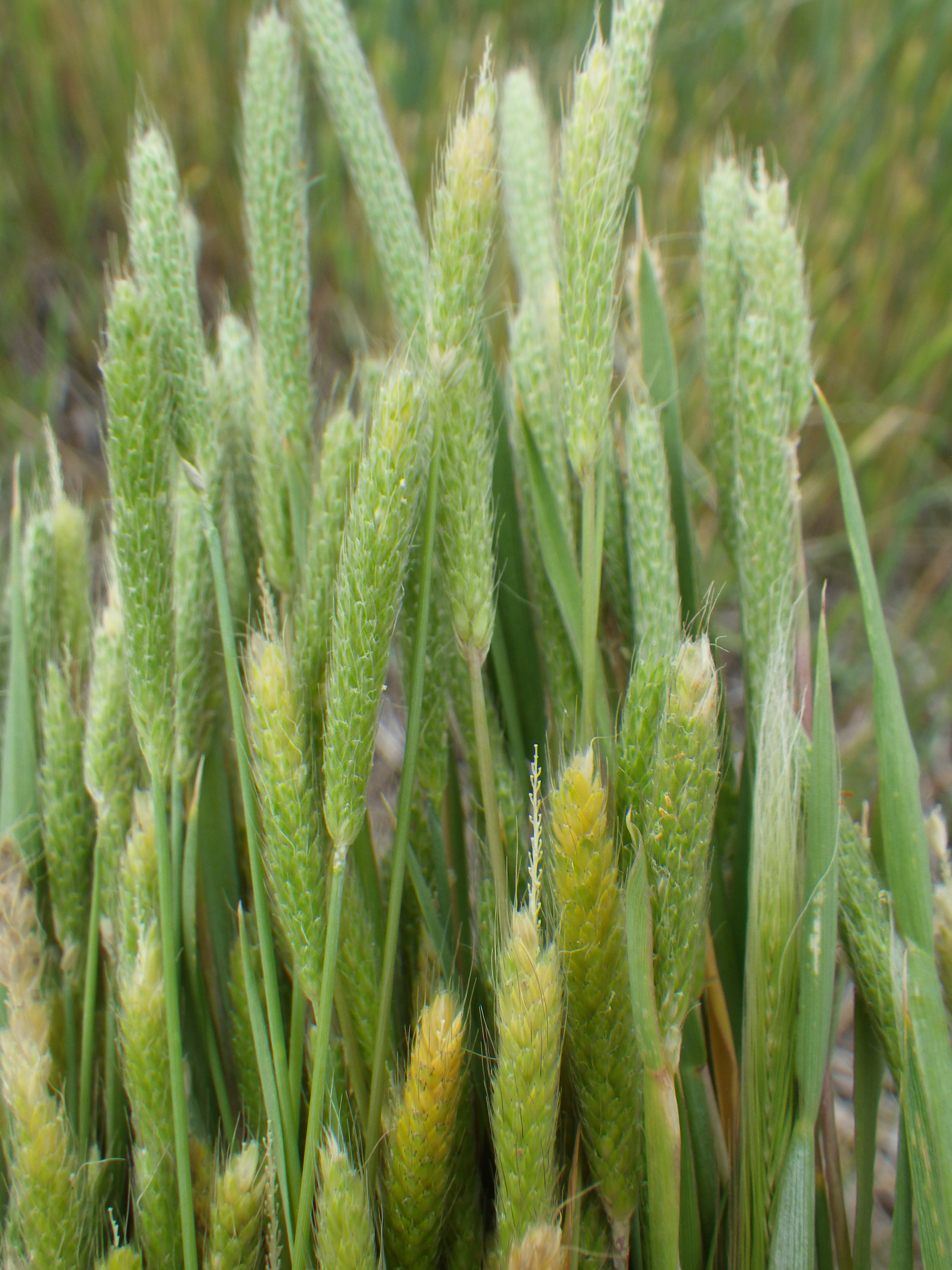 The narrowly cylindrical inflorescence combined with very small anthers and awns the protrude at least a couple of millimeters from the lemma tip are characteristic of this species.